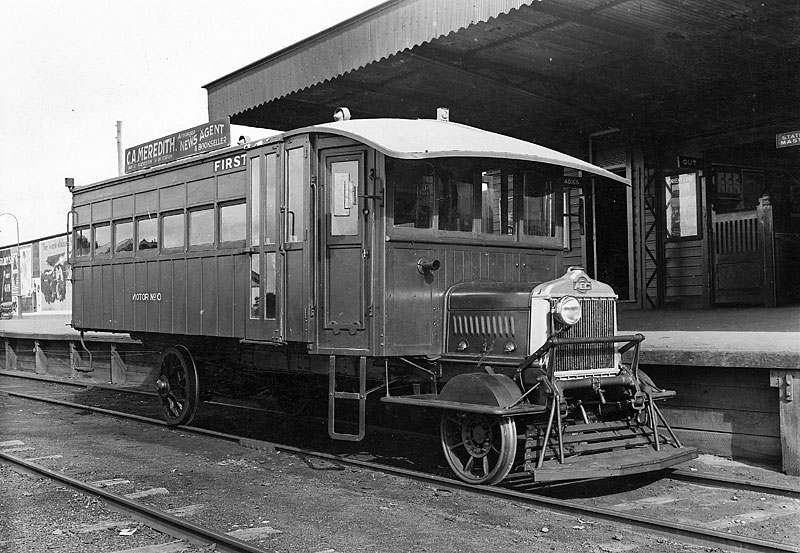 photograph of the Victorian Railways AEC railmotor at Mornington railway station, Melbourne pre 1950.